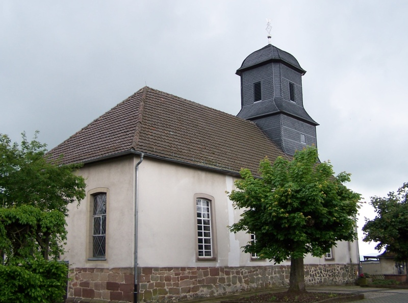 Niedenstein Protestant Church